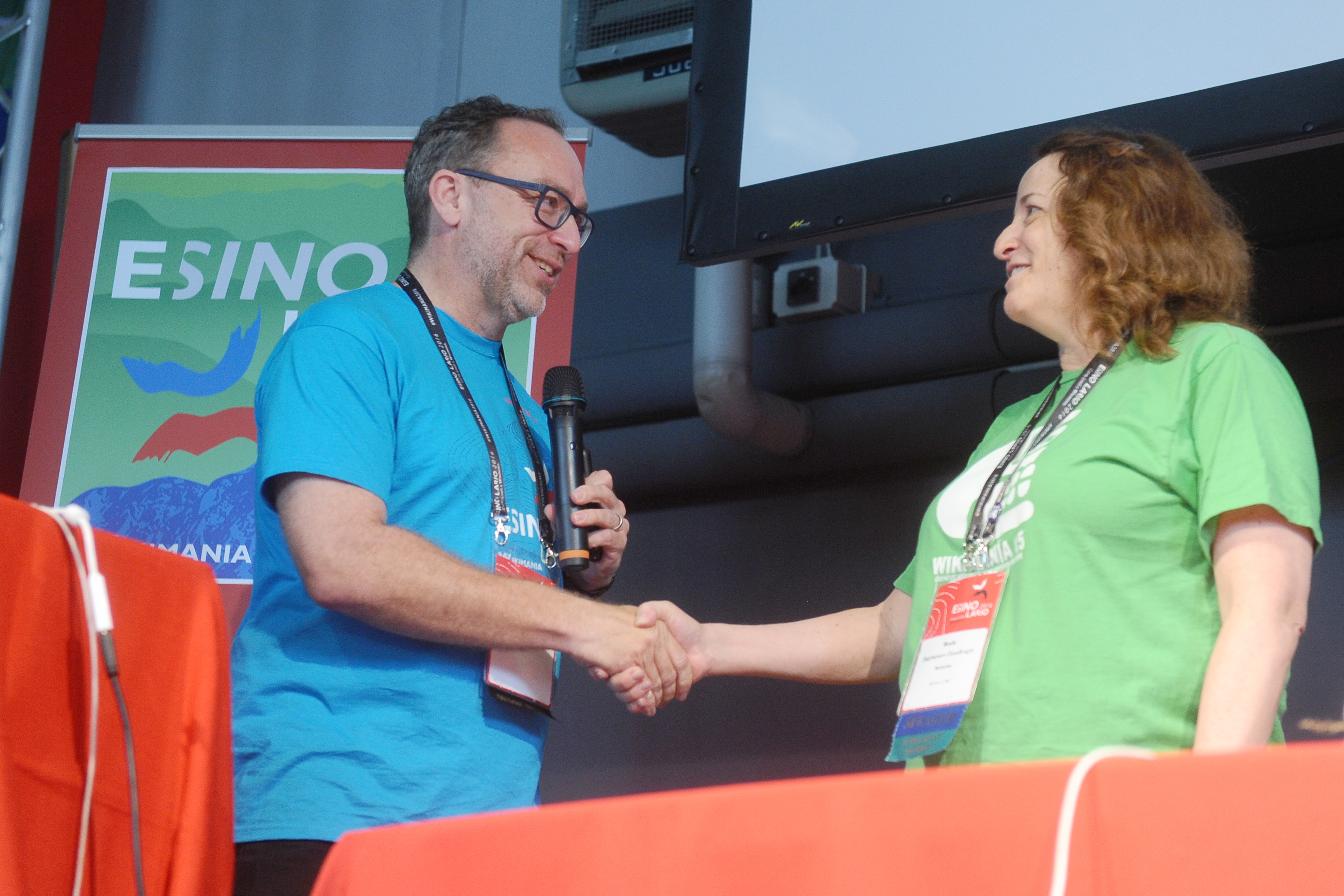 Wikimania 2016 - Opening by Jimmy Wales